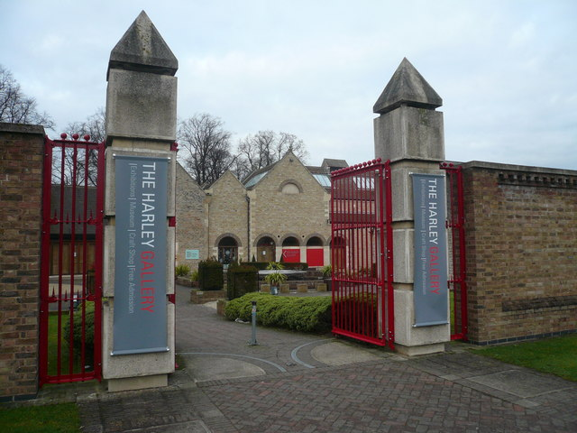 Entrance to The Harley Gallery Part of the Dukeries Garden Centre complex.